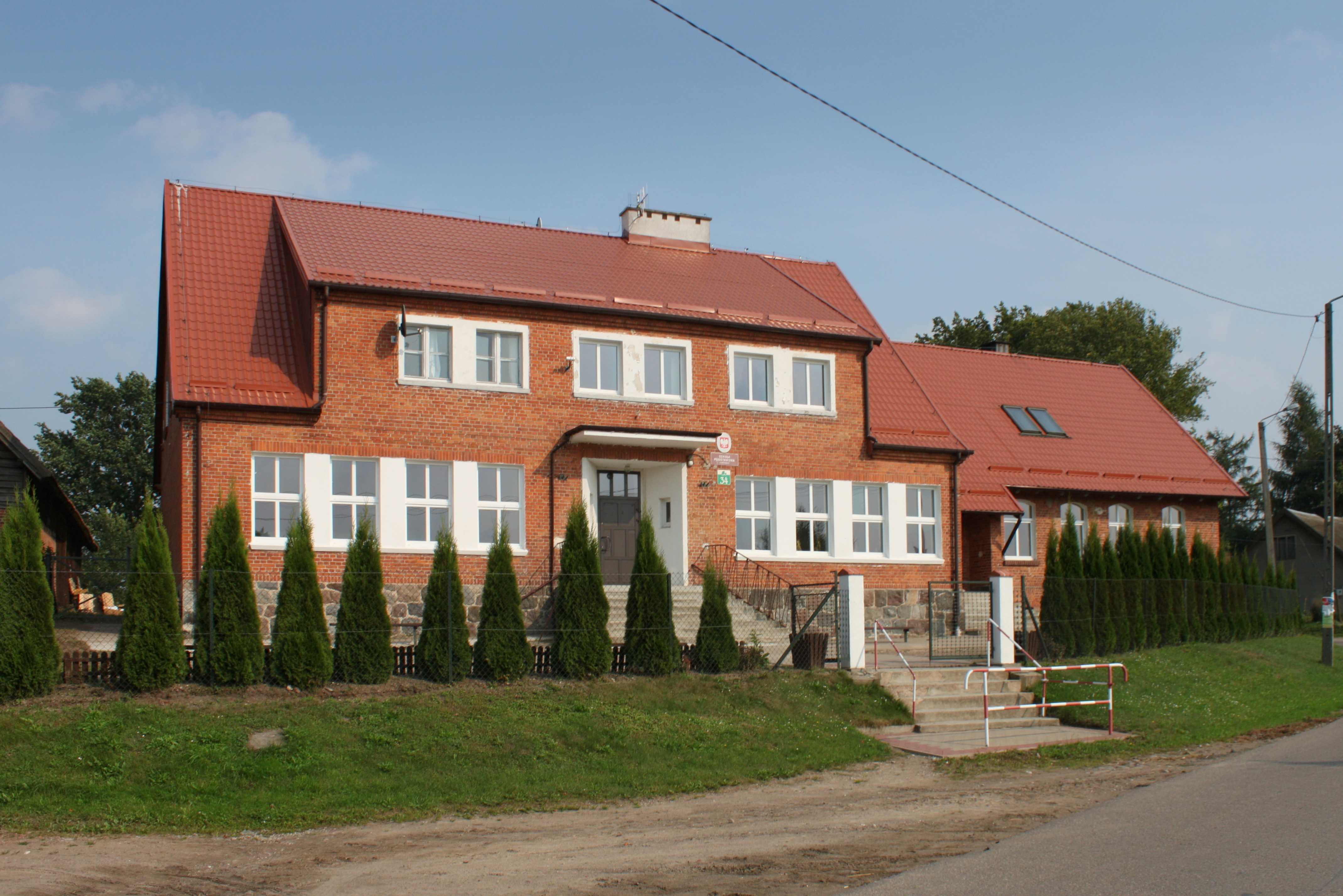 School in Orzyny.